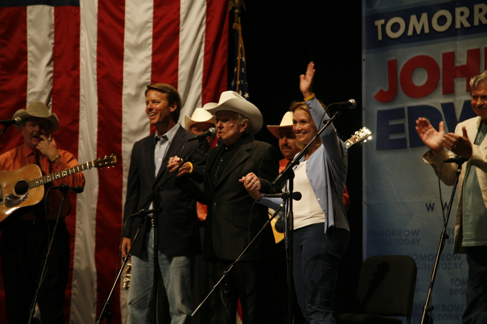 John Edwards and Elizabeth Edwards attend a concert with Dr. Ralph Stanley and the Clinch Mountain Boys in Roanoke, Virginia. Photo by Rachel Feierman.